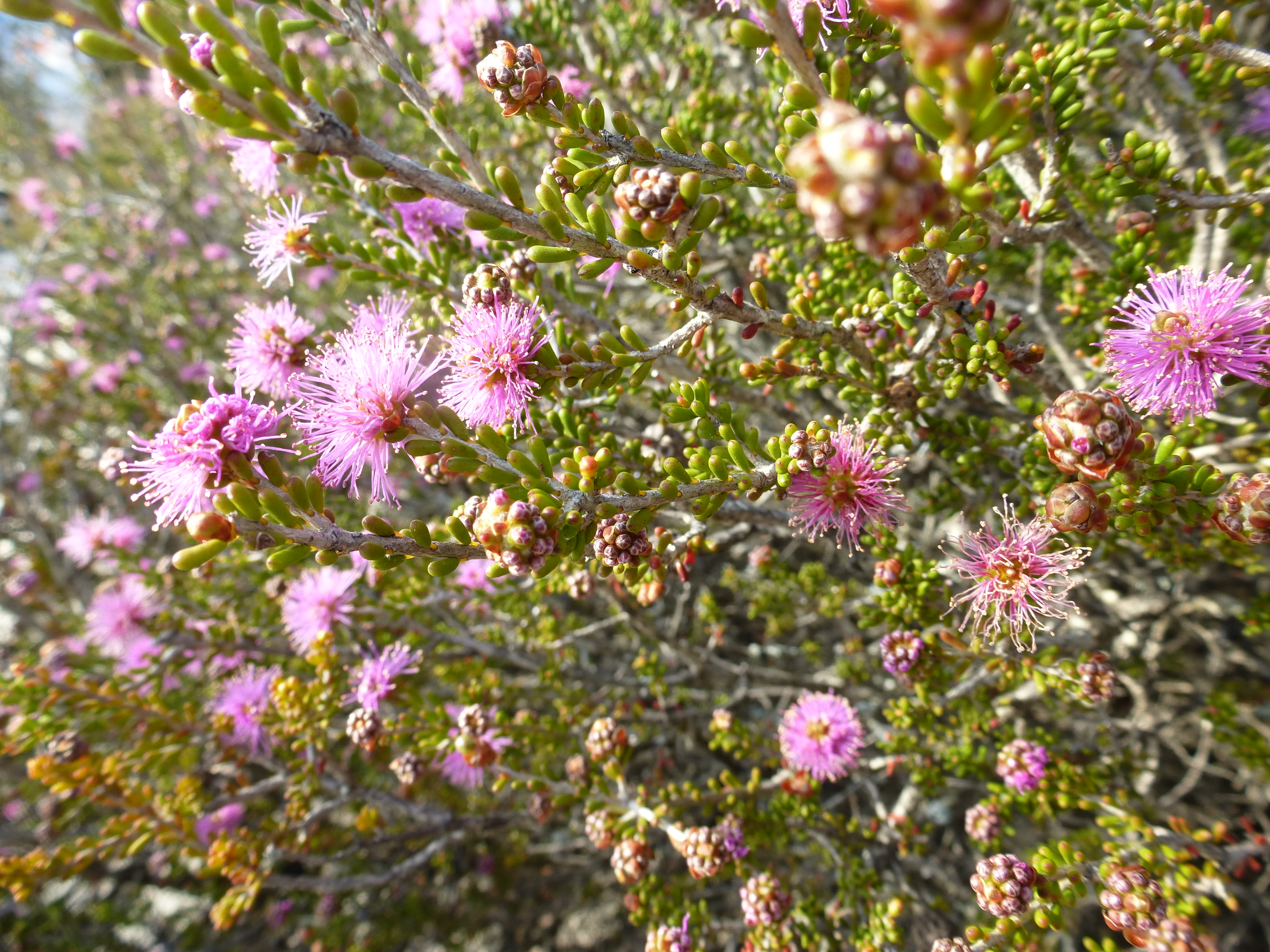 Melaleuca rigidifolia growing 42 km N of Ravensthorpe